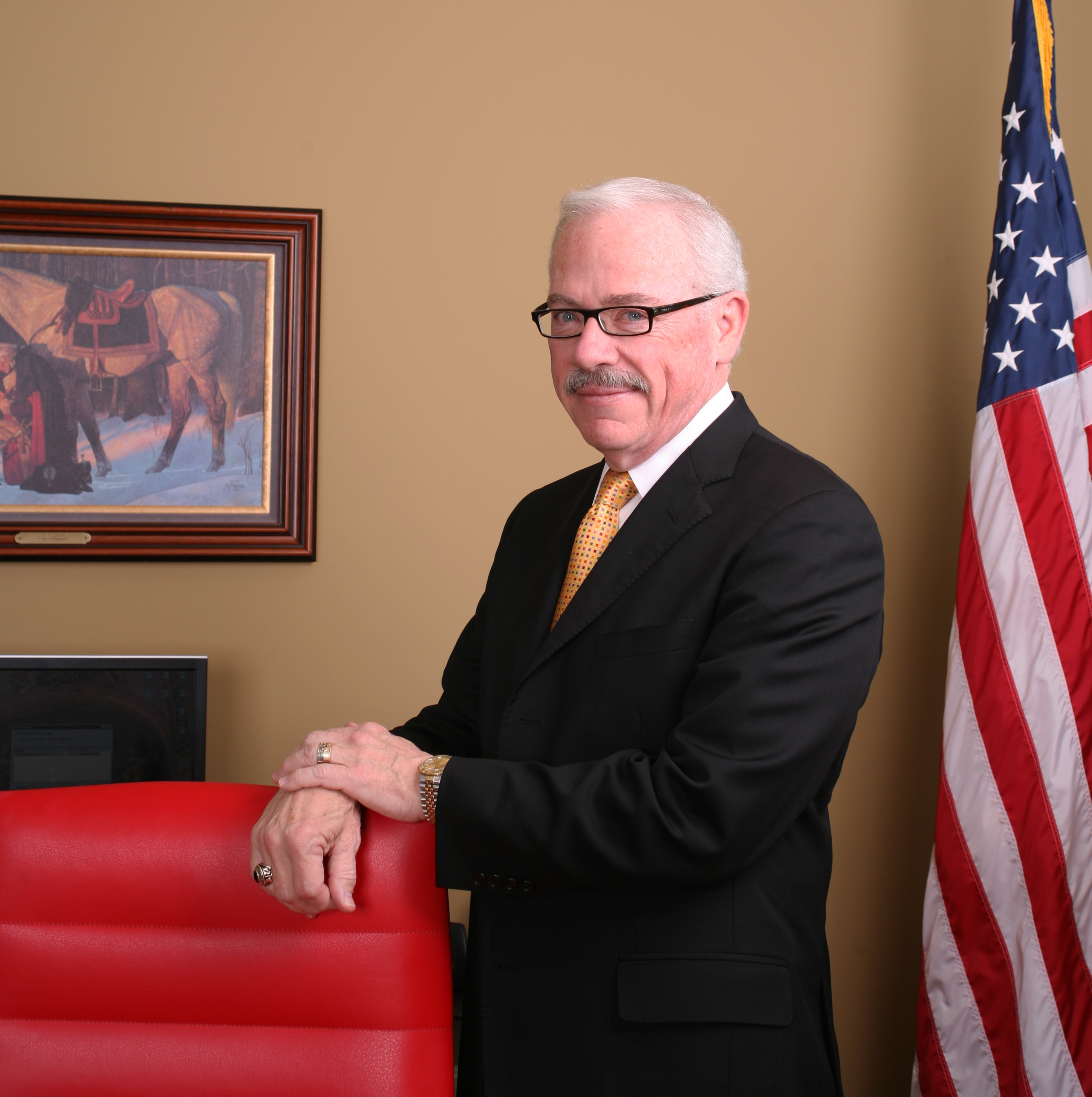 Photograph of Bob Barr.